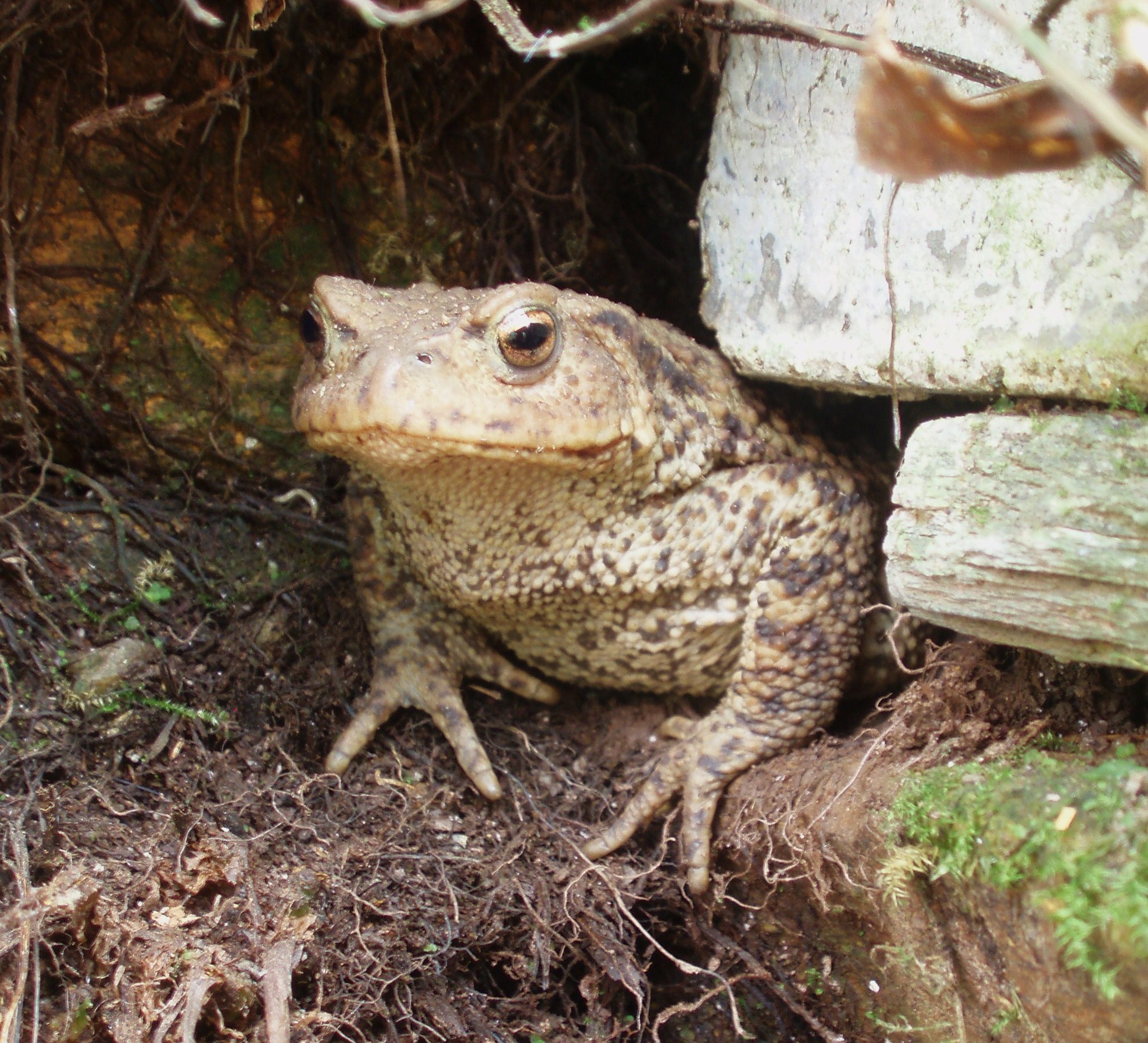 A close up of a common toad